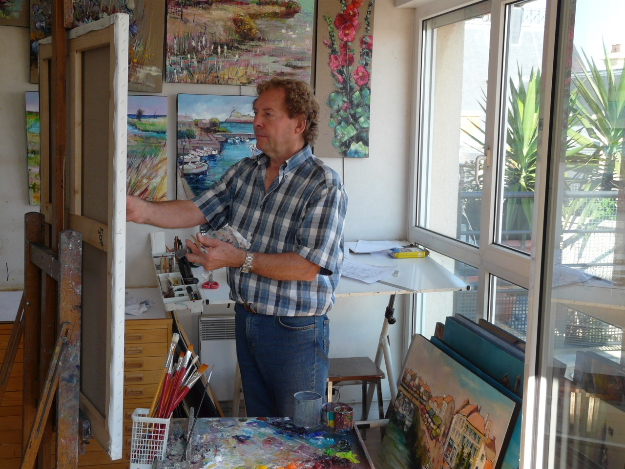 Jacques Courtois dans son atelier aux Lilas